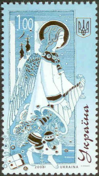 Stamp of Ukraine